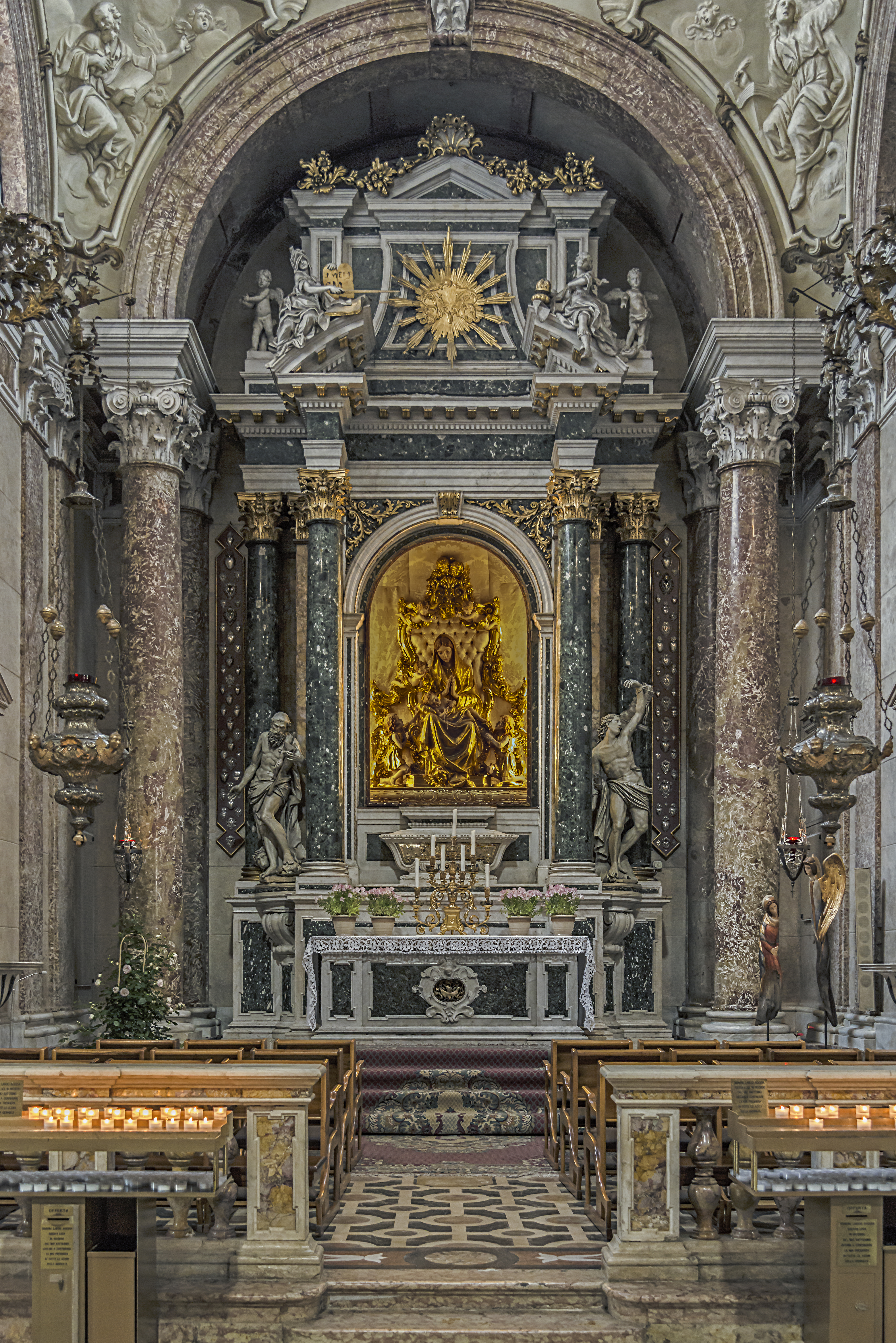 Cattedrale Santa Maria Matricolare. Madona del Popolo chapel. The arc of triumph red marble, dates from 1510. It is the only remnant of the original chapel renaissance. The chapel has always been a place of great popular devotion. The altar and the altarpiece was redone in baroque style in 1756. Under the statue of the Virgin and Child, Vincenzo Cadorin (1921), there is an urn containing the so-called "spine" with which the saints martys Verona Fermo and Rustico were killed.